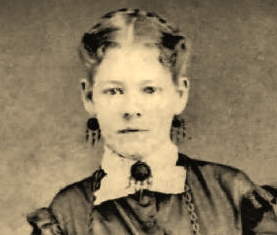 Matilda J. ("Tillie") Pierce (1848-1914) was a 15-year--old Gettysburg, Pennsylvania native who helped care for wounded Union Army soldiers during the Battle of Gettysburg from July 1-3, 1863. After marrying Horace Alleman, she wrote about her American Civil War experiences in her book, "At Gettysburg, or What a Girl Saw and Heart: A True Narrative." (public domain photo)